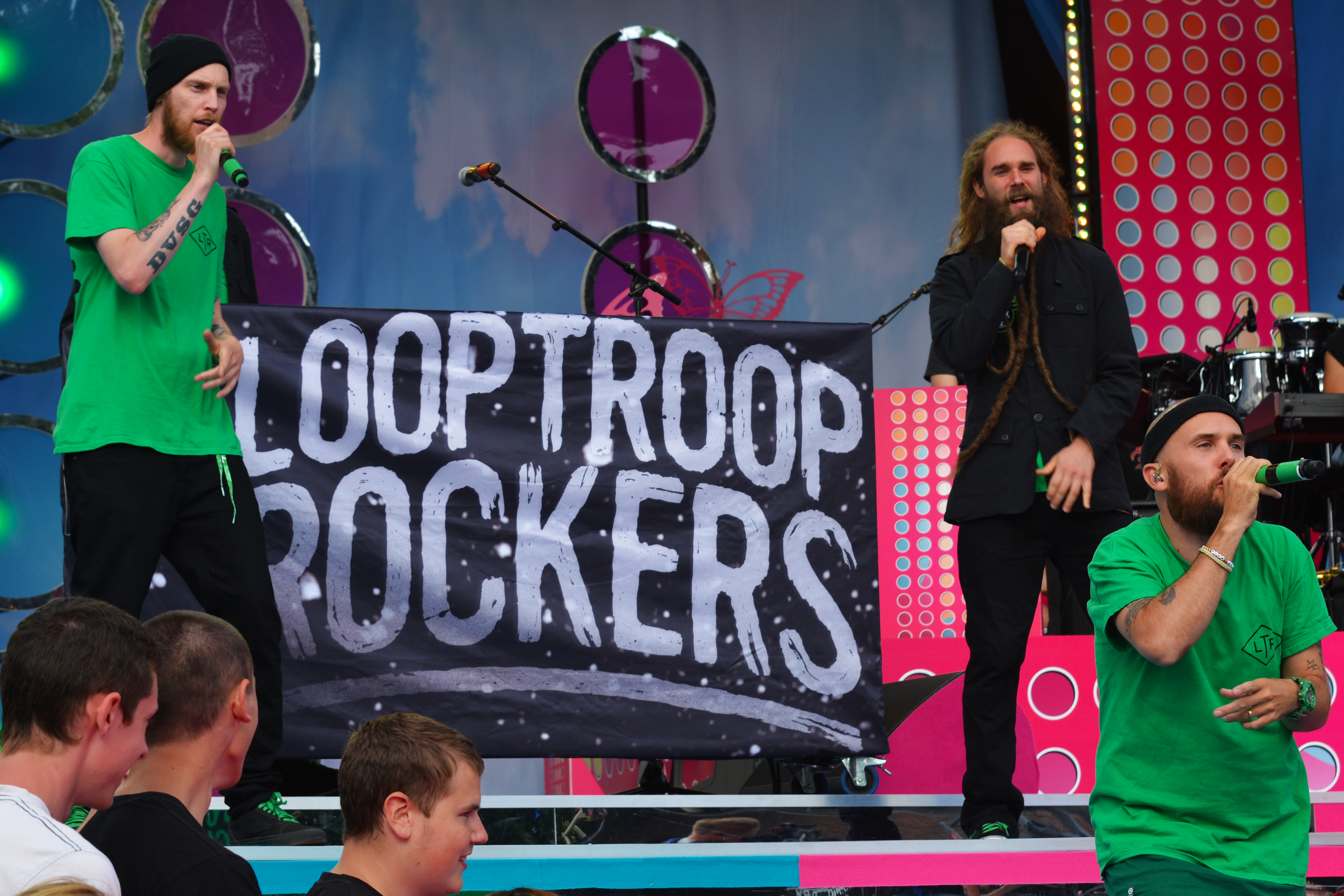 Looptroop Rockers visiting Sommarkrysset at Gröna Lund, Stockholm